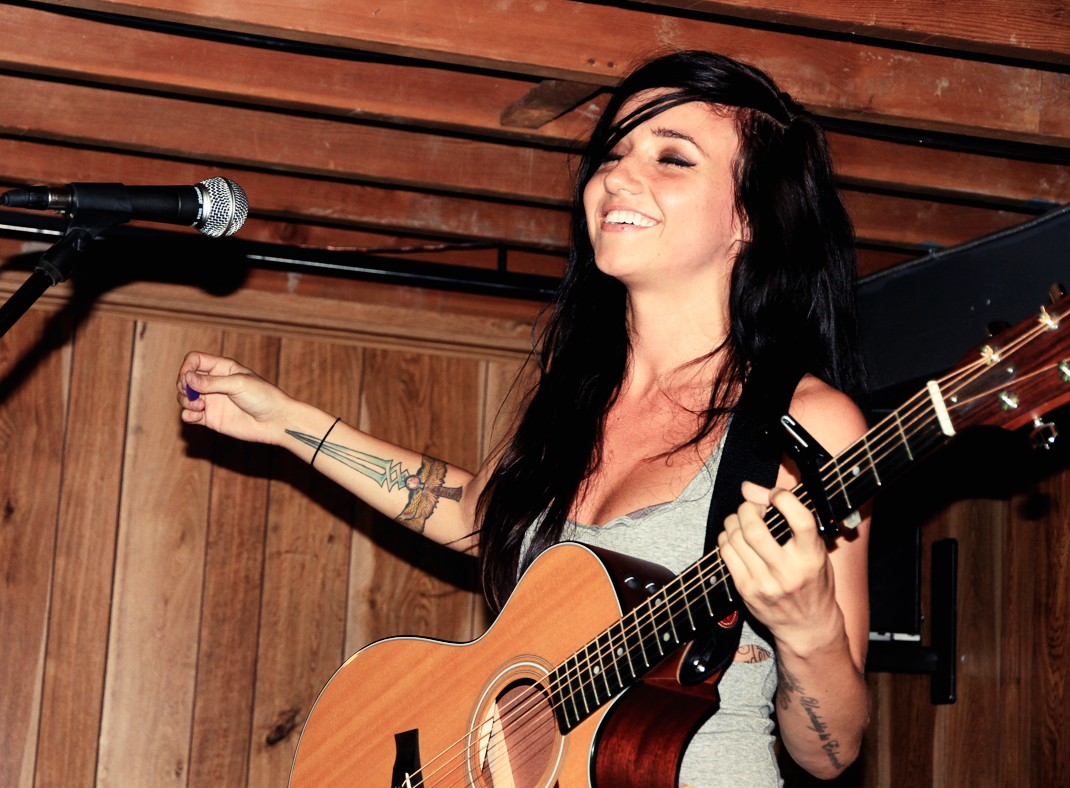 Lights Valerie Poxleitner. Acoustic set in Toronto (@Sonic Boom Record Store). July 25, 2010.